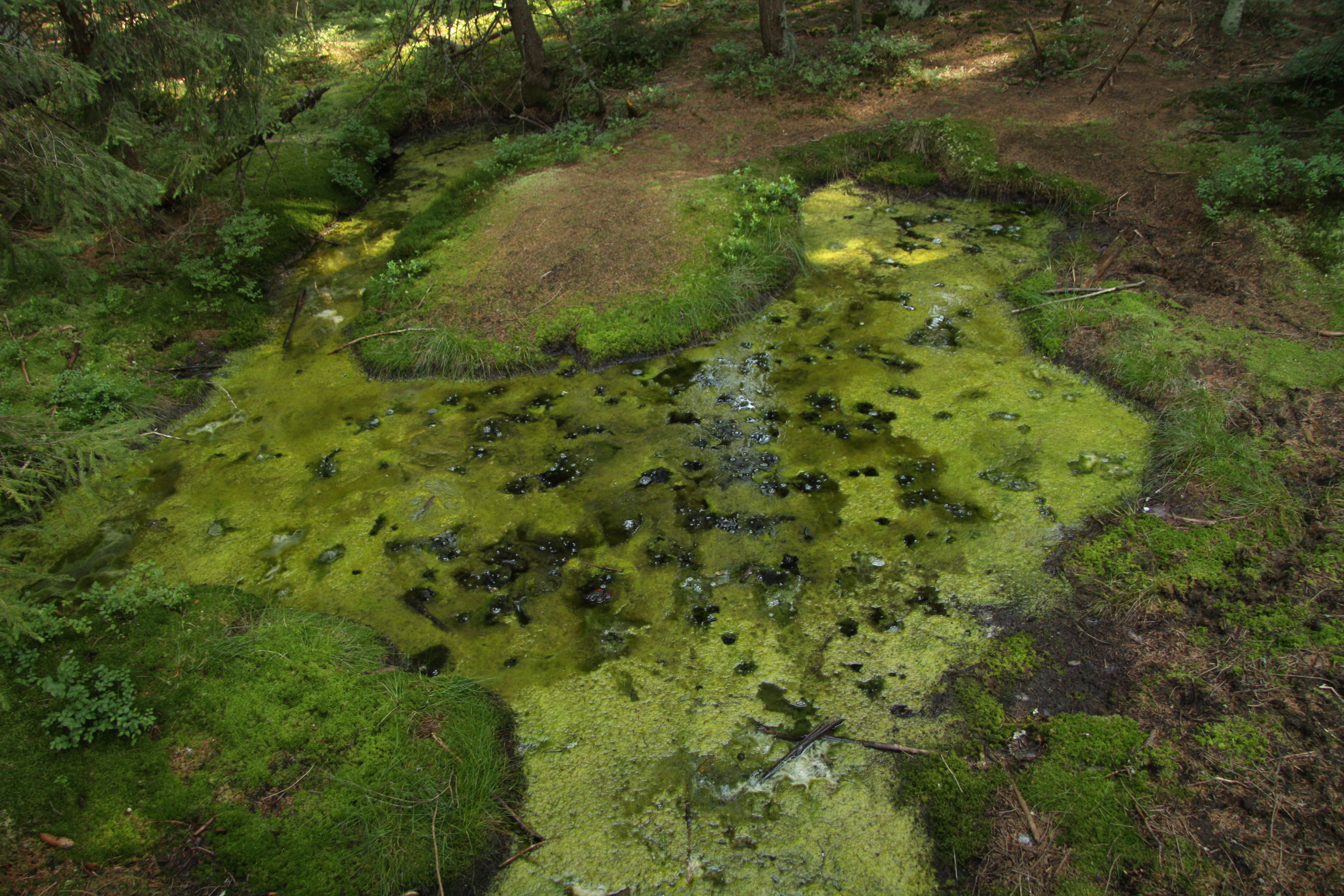 Nature reserve Smraďoch near Mariánské Lázně, town in Cheb District, Czech Republic - Google Maps - Google Earth